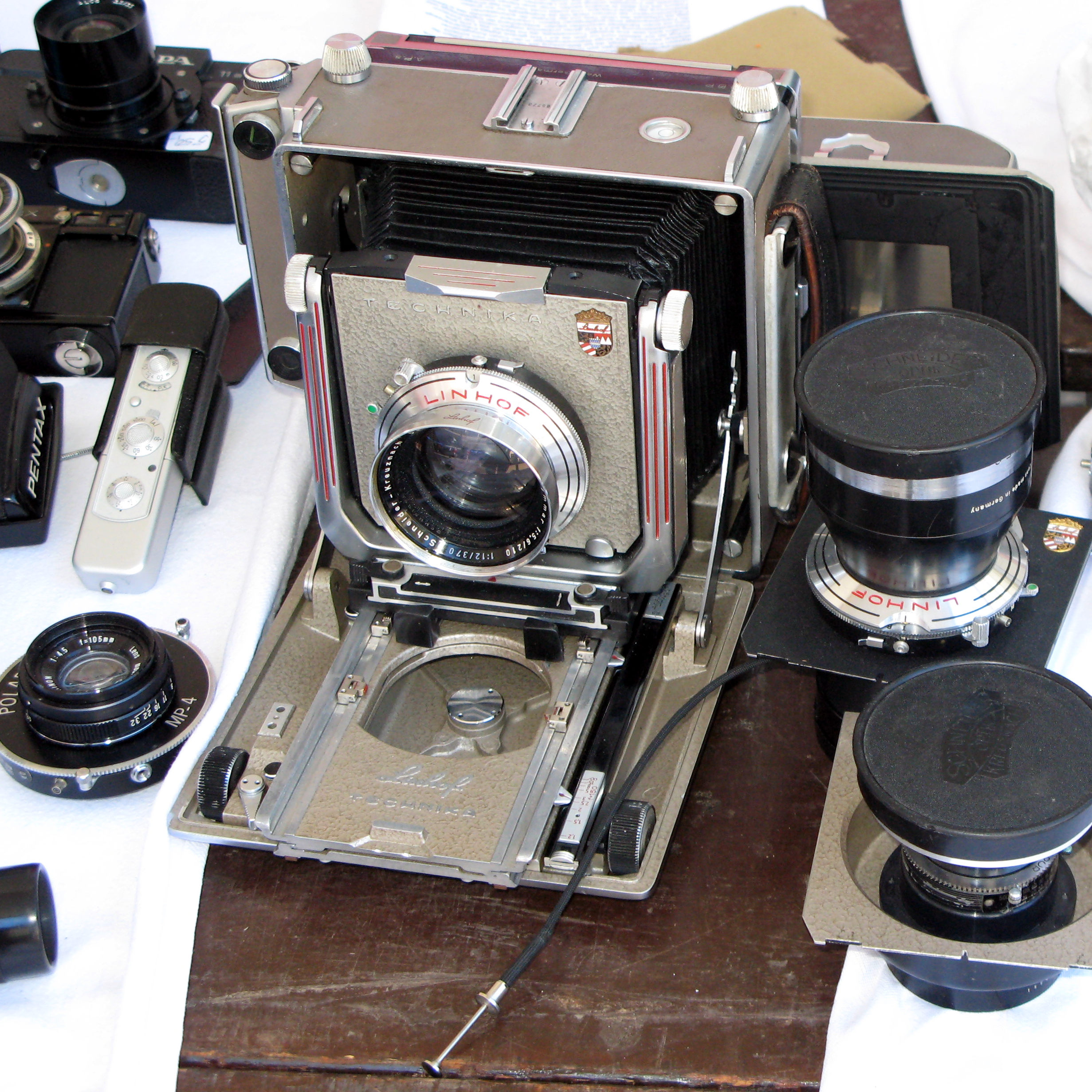 Linhof